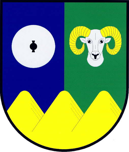 Coat of amrs of Zvánovice , District Prague-East, Czech Republic